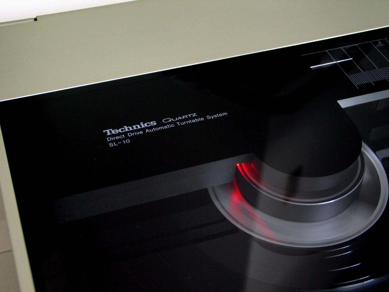 Picture of Technics SL-10, ser.DA26-04M182